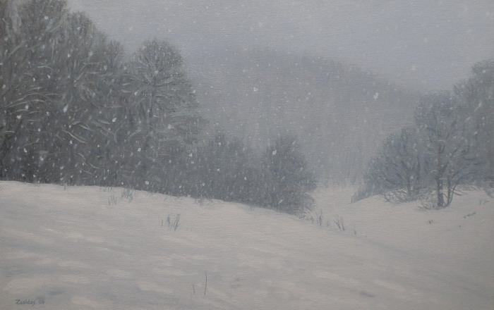 Snowing painted by Márton Zsoldos